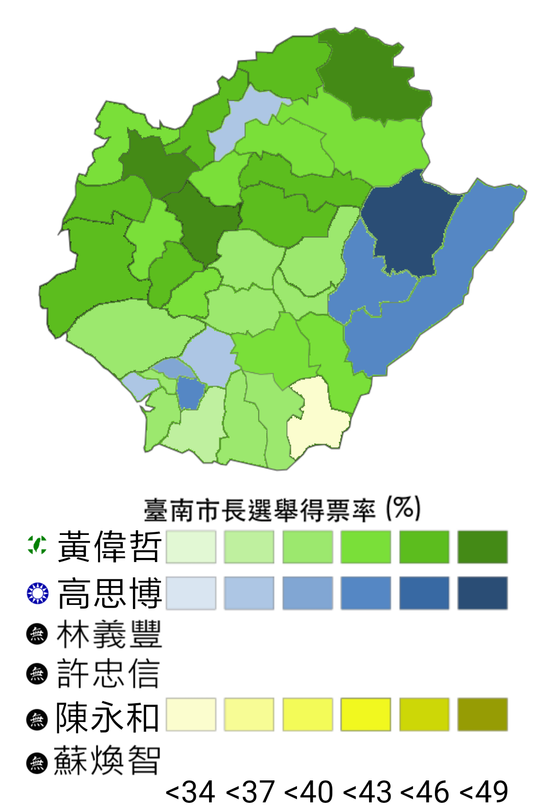 Tainan_mayoral_election_2018